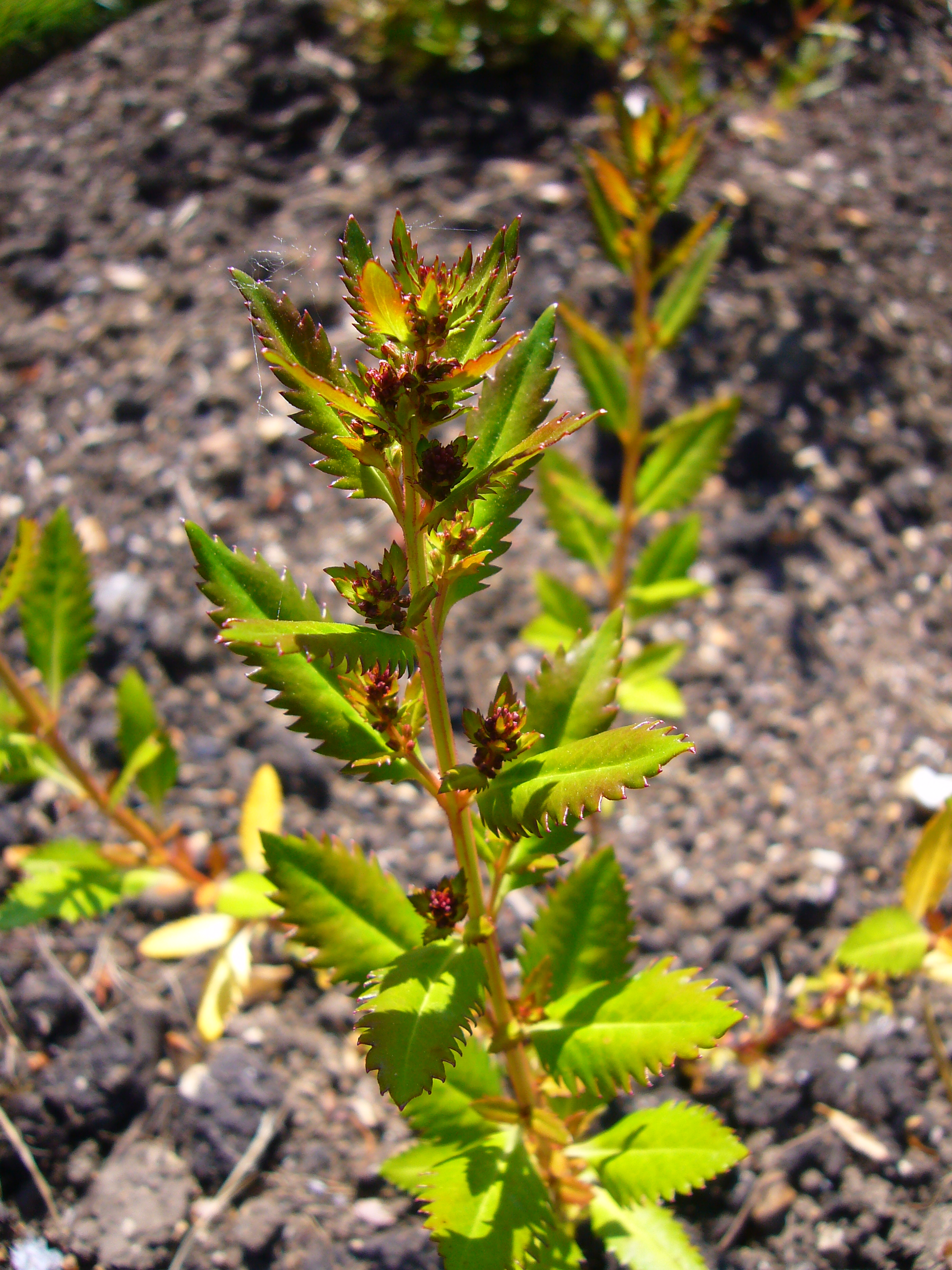 Haloragis erecta (flower) (photo taken in the Cambridge University Botanic Garden)